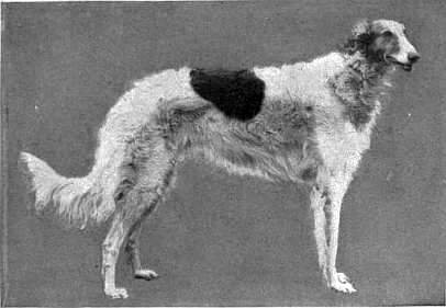 Borzoi. (From Photo by Bowden Bros.)